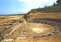 Picture shot of ancient theatre at modern Sicyon.